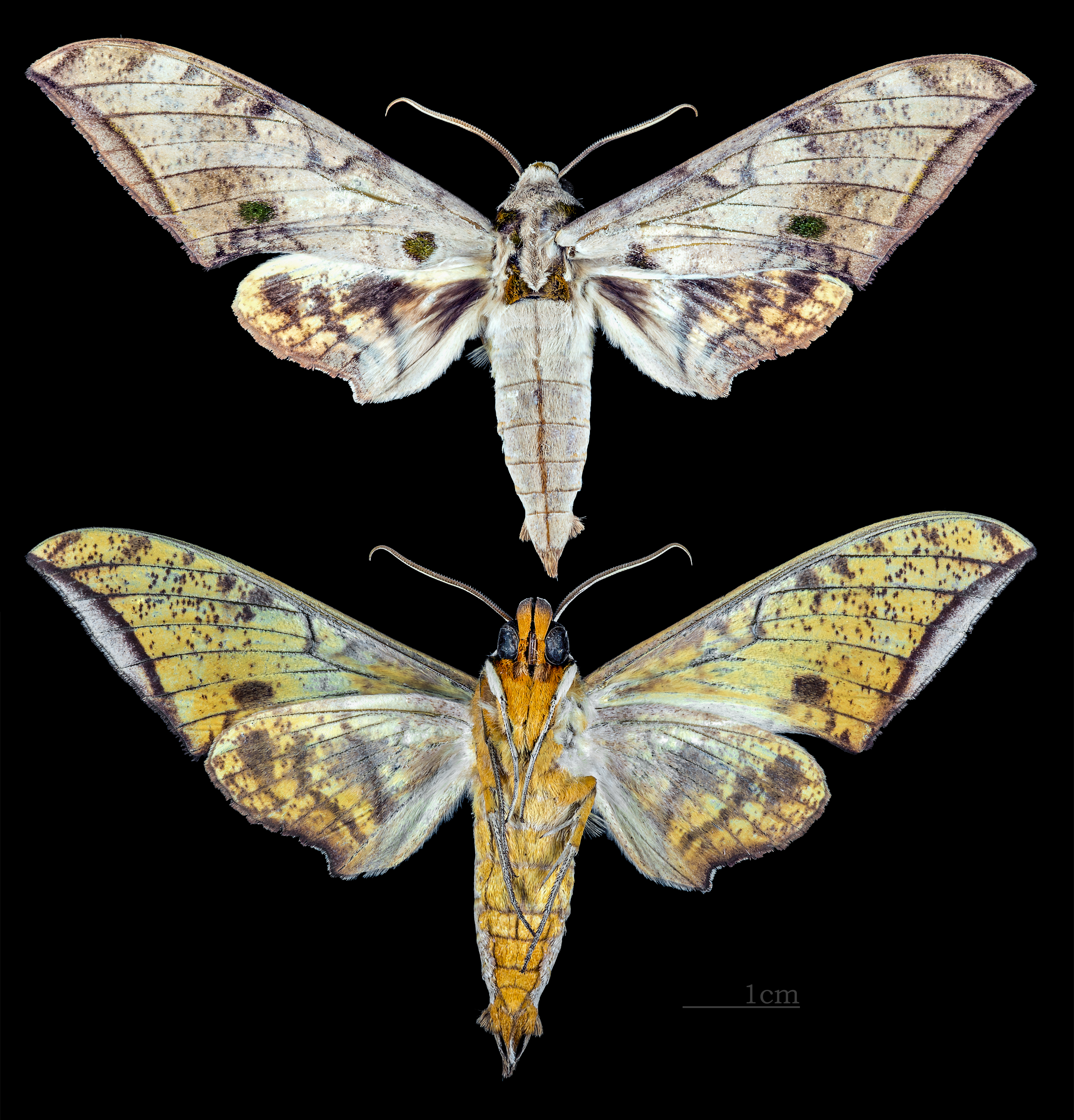 Ambulyx inouei - Two views of same specimen Collection of the Mathematician Laurent Schwartz